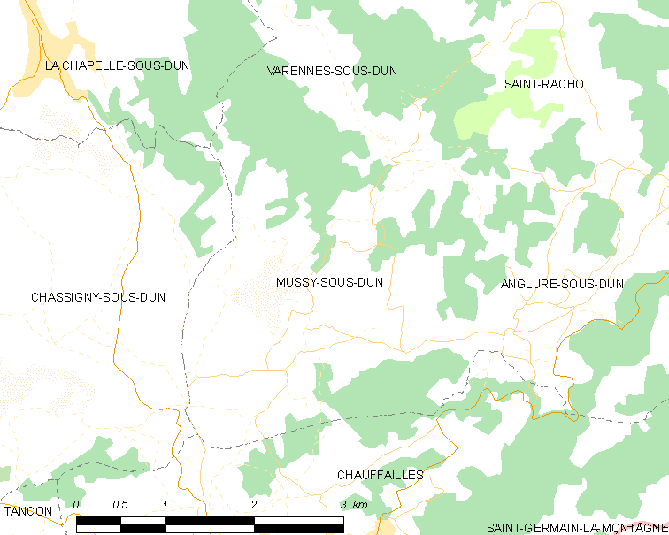 Map of French municipality